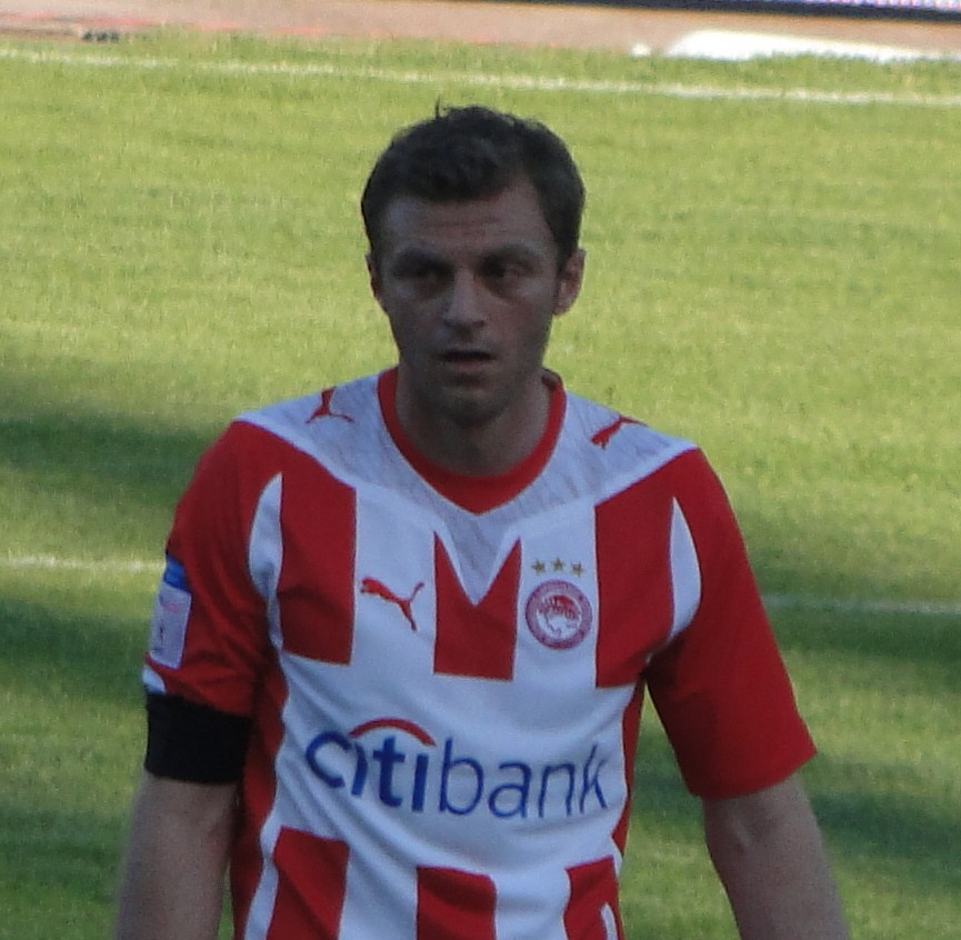 Avraam Papadopoulos playing for Olympiacos in 2010.